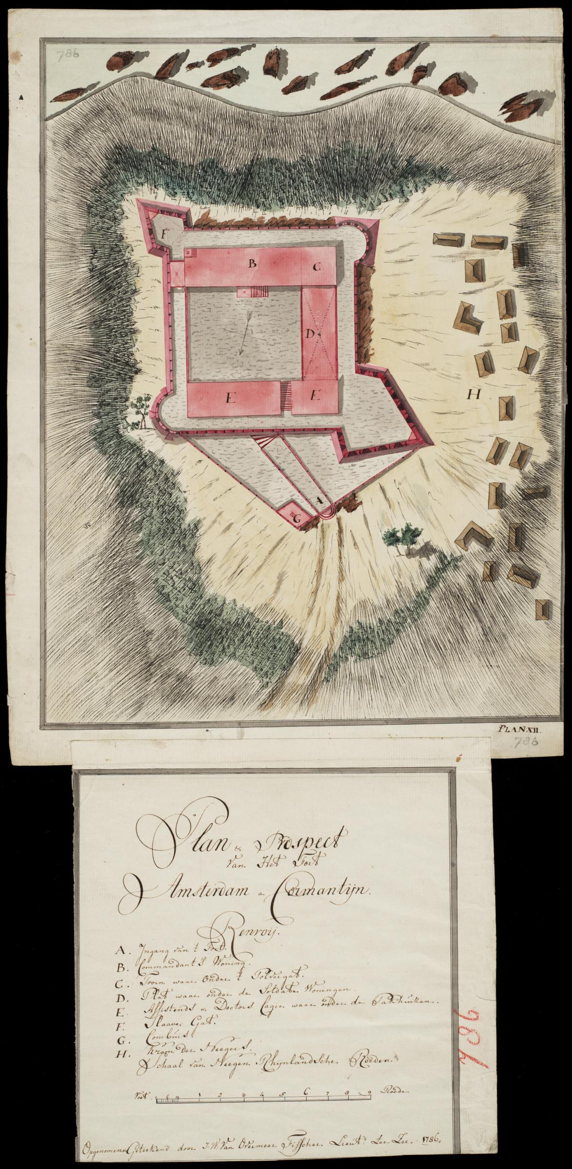 Floor plan of the Amsterdam fort at Cormantin. Title in the Leupe catalogue (NA): Plan en Prospect Van Het Fort Amsterdam op Cormantyn. Plan & Prospect Van Het Fort Amsterdam op Cormantijn. The notes attached to the Plan measure 26 x 26 cm. Notes on reverse: No. 30 Het Fort Amsterdam. Register 8, Deel 1, Folio 35, Portefeuille .. [inscribed on a blue label] / 480 [stamped in bold on a small label] / 10 C. Top left and bottom right on the chart, right on the notes: 786[in pencil]. Bottom right: Plan XII. Key: Renvoij / A. Ingang van 't Fort. / B. Commandant's Woning. / C. Tooren waar Onder 't Polvergat. / D. Plat waar onder de Soldaten Woningen. / E. Assistends & Doctors Logie, waar onder de Pakhuizen. / F. Slaaven Gat. / G. Combuis. / H. Krom der Neegers.